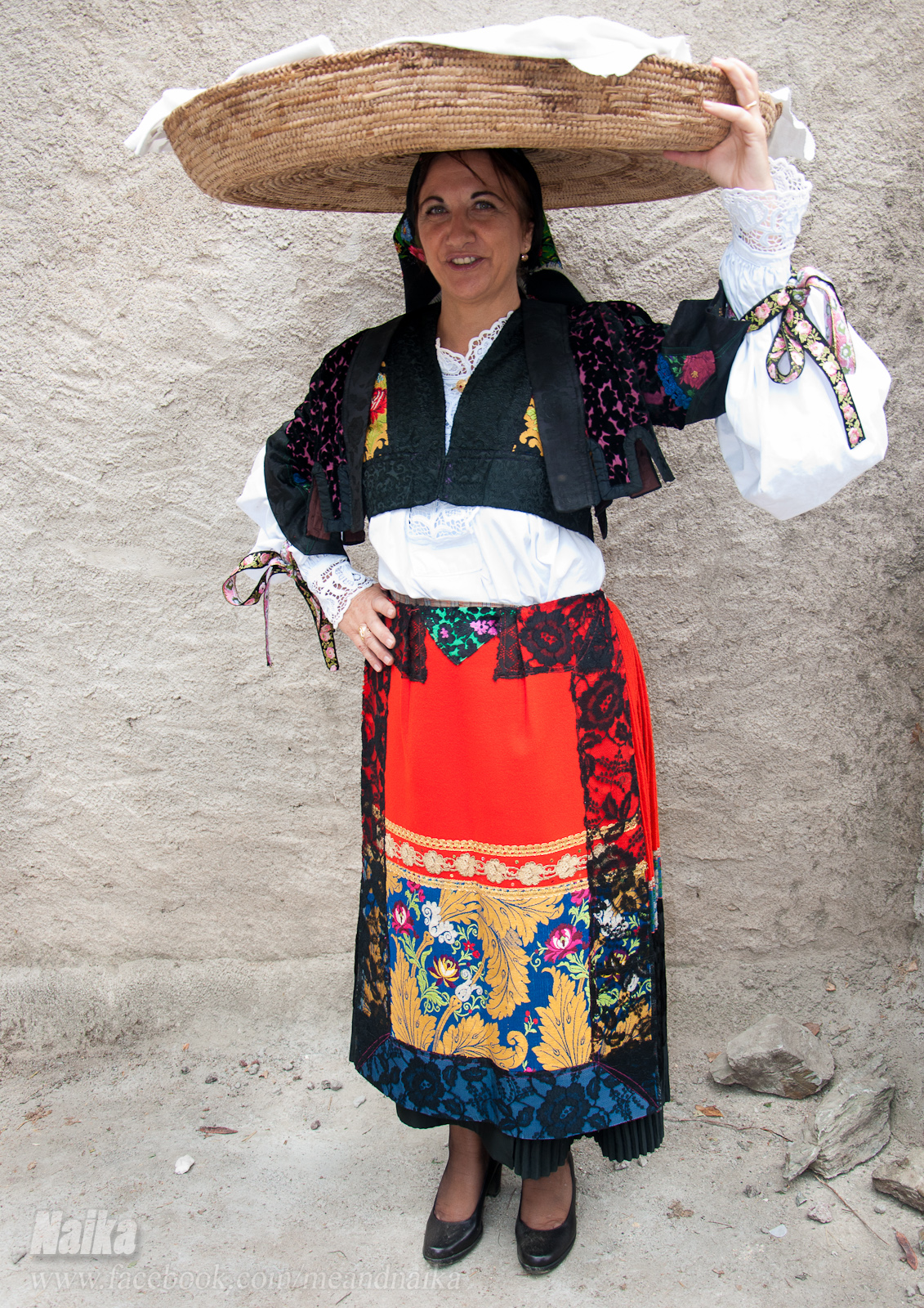 Tonara, nuoro costumes of sardinian people . sardinians